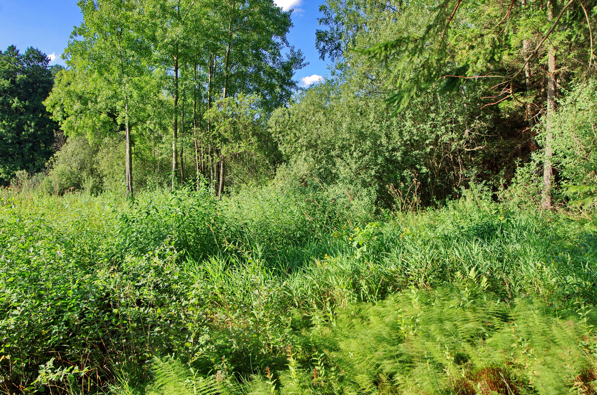 Nature reserve Hamrnický mokřad near Hamrníky village, Cheb District, Czech Republic